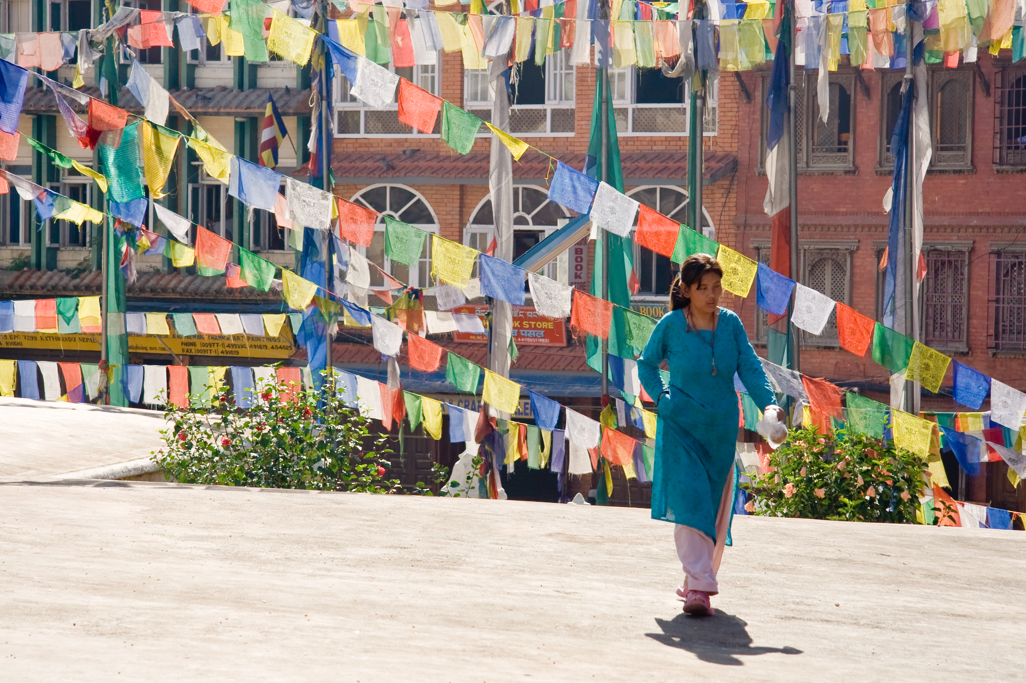 The colorful roof of Bodnath Temple in Kathmandu, Nepal, overfilled by prayer flags. Prayer flags are colorful rectangular cloths, traditionally they are woodblock-printed with texts and images.